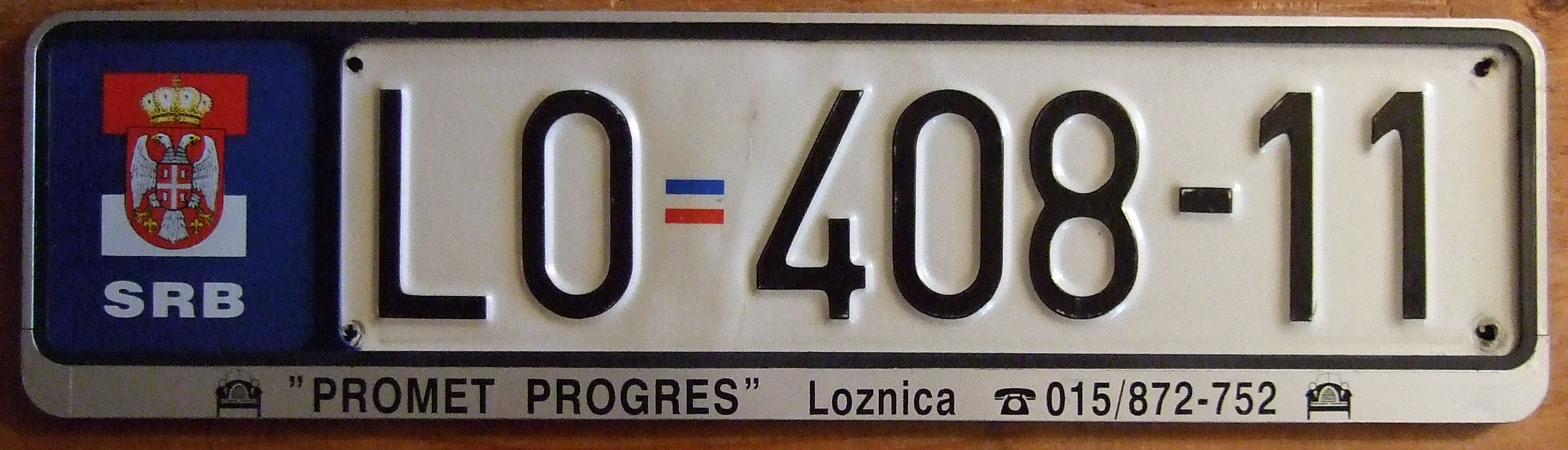 License plate of Serbia with optional serbian flag at the left site